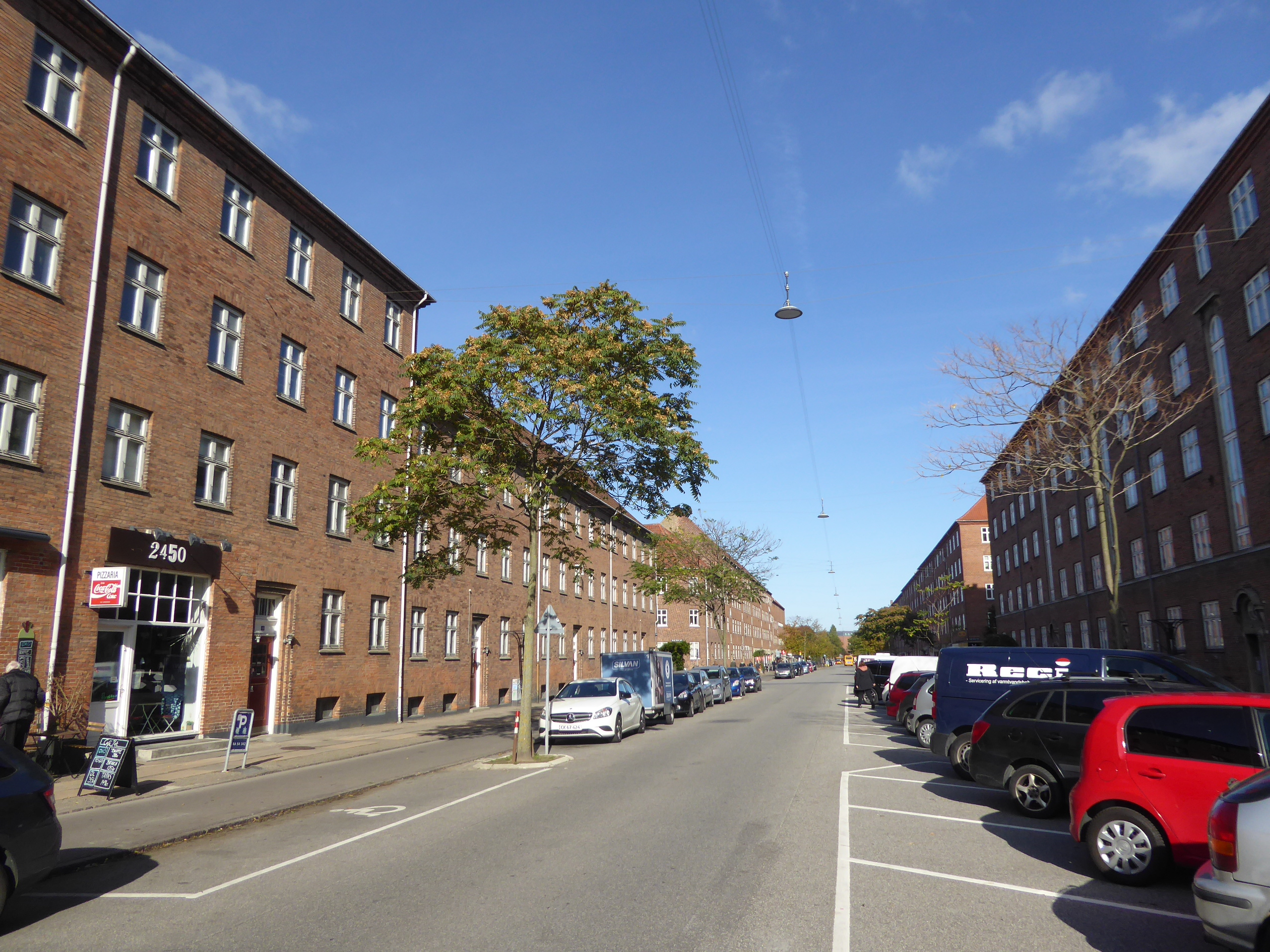 The street Borgbjergsvej in Kongens Enghave in Copenhagen.